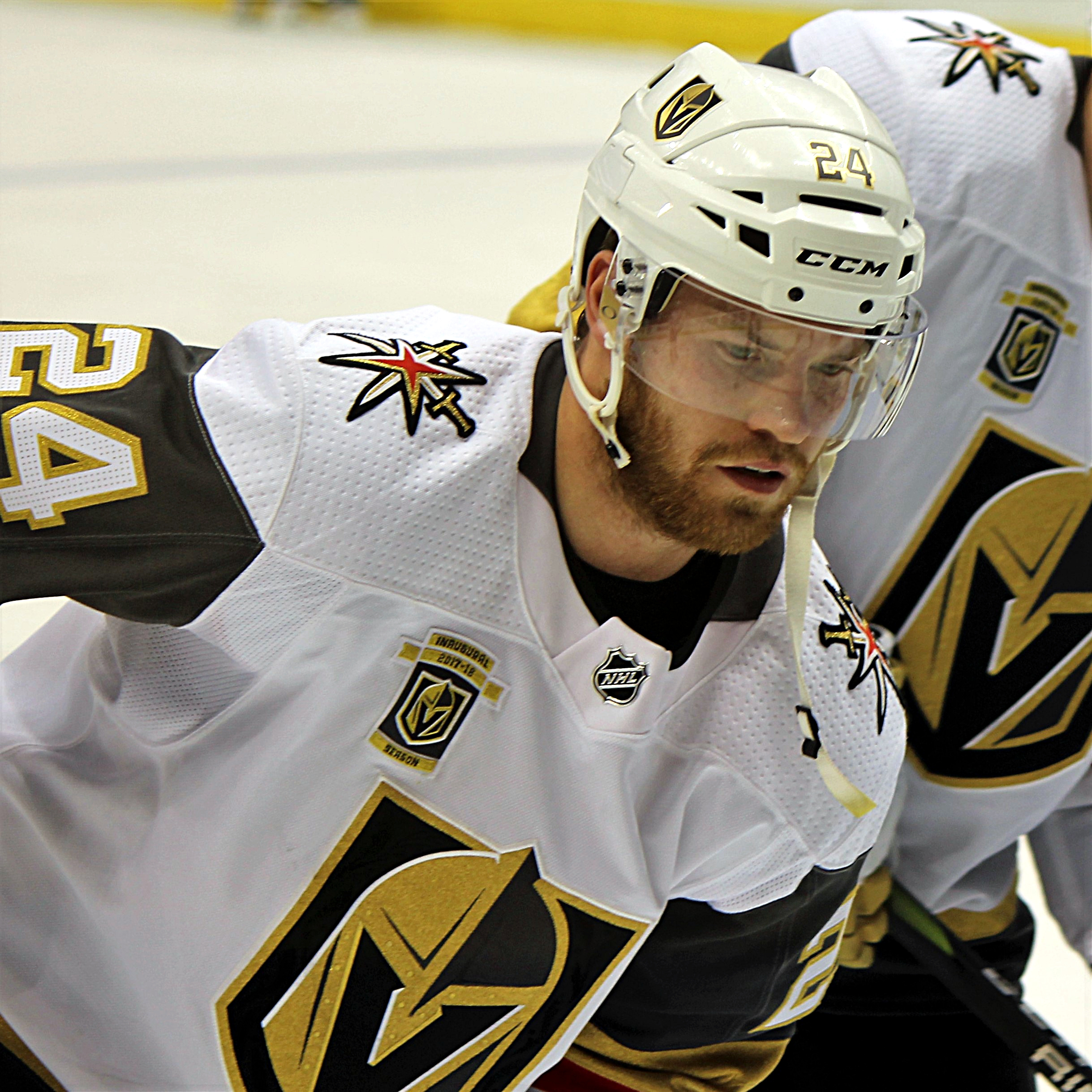 Vegas Golden Knights forward Oscar Lindberg during a game against the Pittsburgh Penguins, February 6, 2018, at PPG Paints Arena in Pittsburgh, PA.